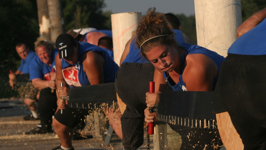 Lindsay Daun, of Round Lake, IL, in the forground, grits her face, as she saws with her partner, Dion Lane, of Auckland, New Zealand, with the two man saw. This competition is called the "Jack and Jill", since men and women are partnered up to saw a log, at the 48th Lumberjack World Championships, in Hayward, Wis., on Saturday July 28, 2007. (SPORTS ILLUSTRATED PHOTO/Paul M. Walsh)